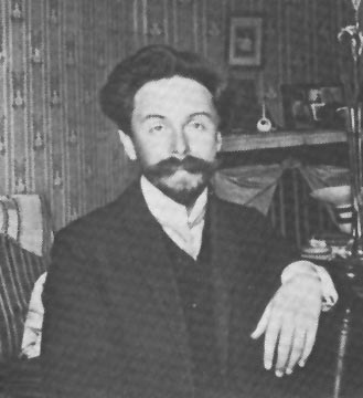 Alexander Scriabin at the age of 24.